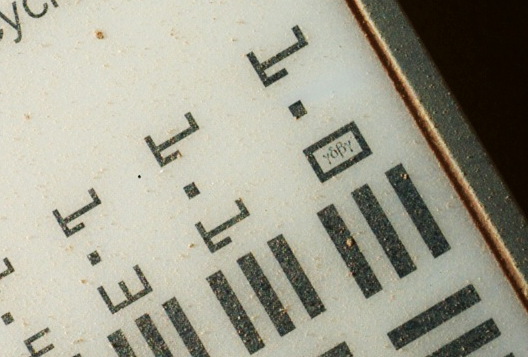 NASA photograph of a calibration target on the Curiosity rover, taken using the Mars Hand Lens Imager (MAHLI), located on the turret at the end of the rover's robotic arm, on Sol 411 of the Mars Science Laboratory Mission. NASA Raw Images Click raw image twice for maximum resolution.